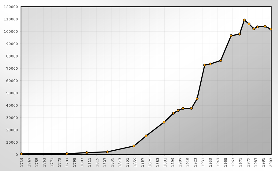 This image shows the population statistics of Witten (Germany).